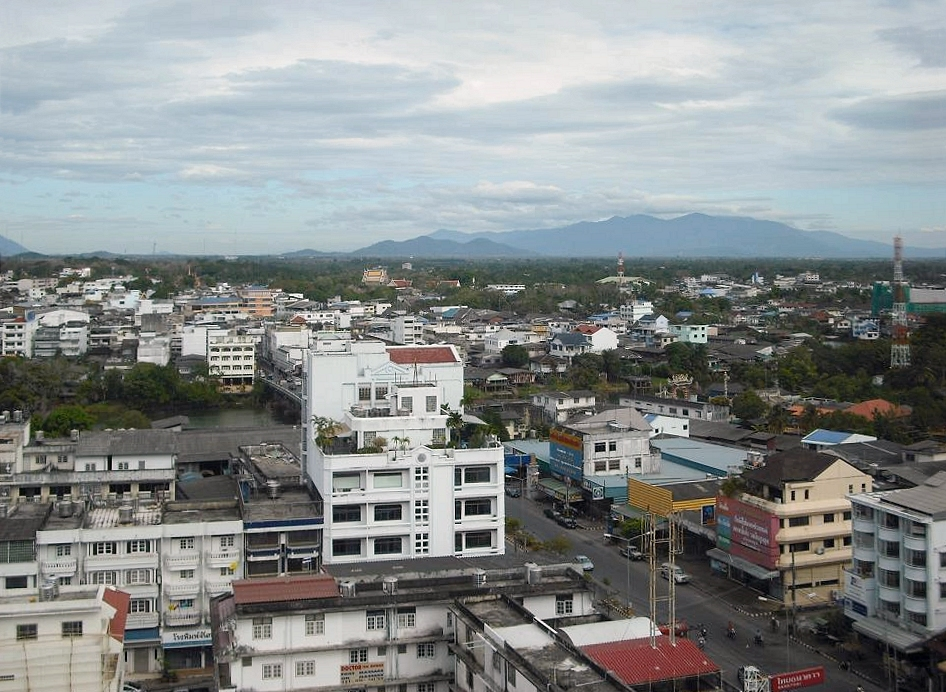 Chanthaburi city view from KP Grand Hotel